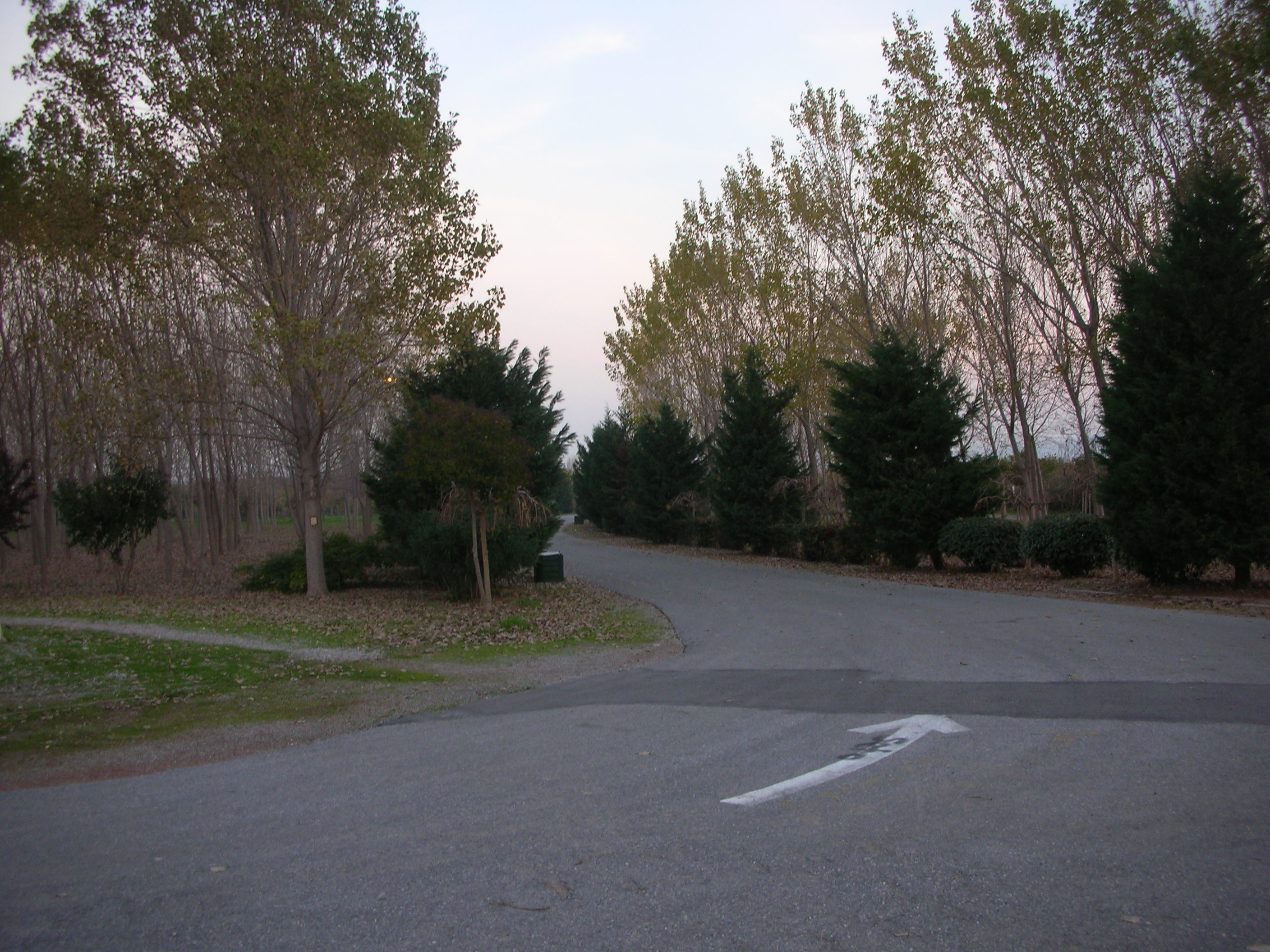 A view of Inciraltı Urban Forest included with bicycle path